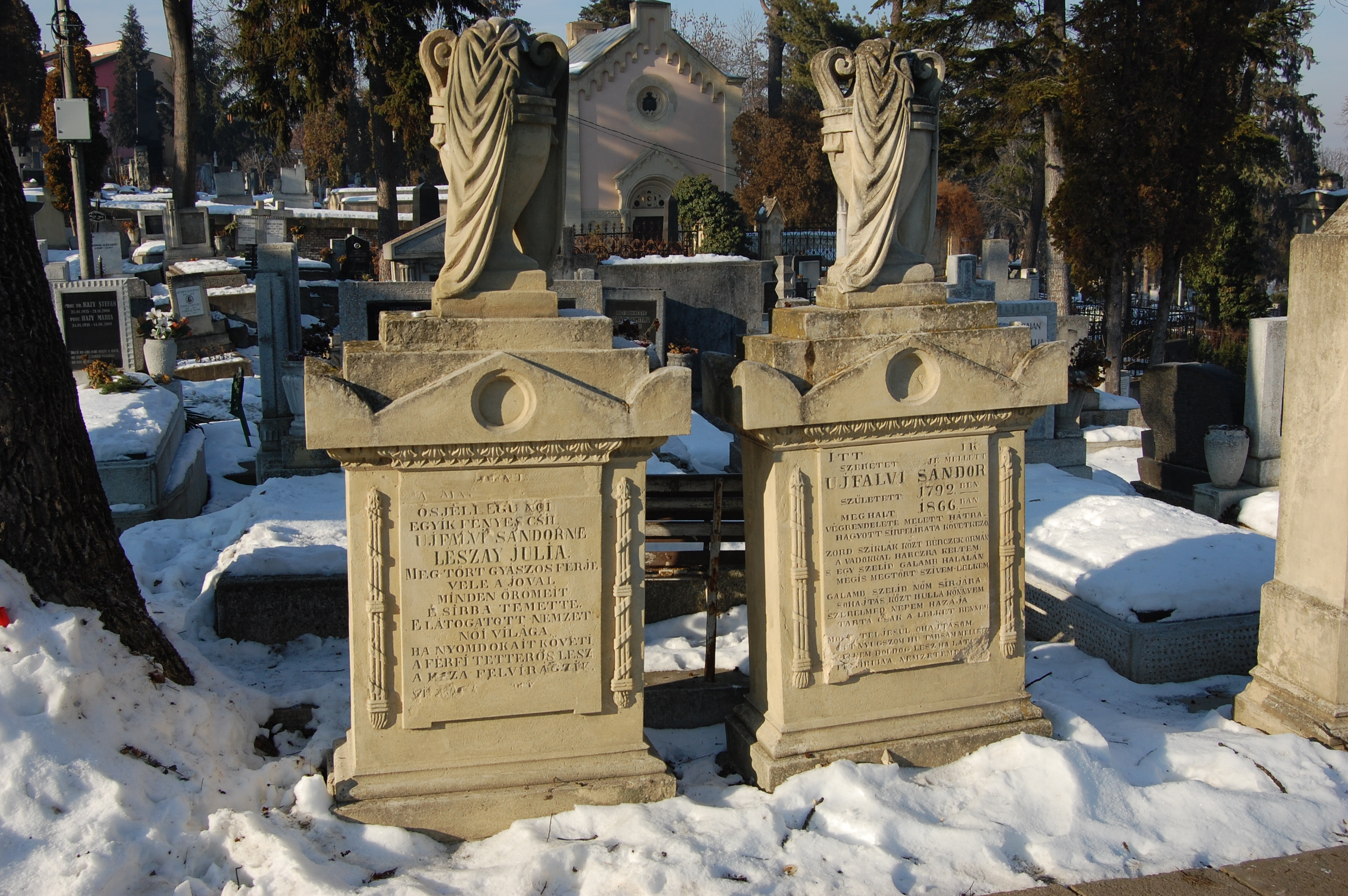 Graves of Újfalvi Sándor (1792-1866) (memorial writer) and his wife in the Cemetery Házsongárd in Cluj-Napoca